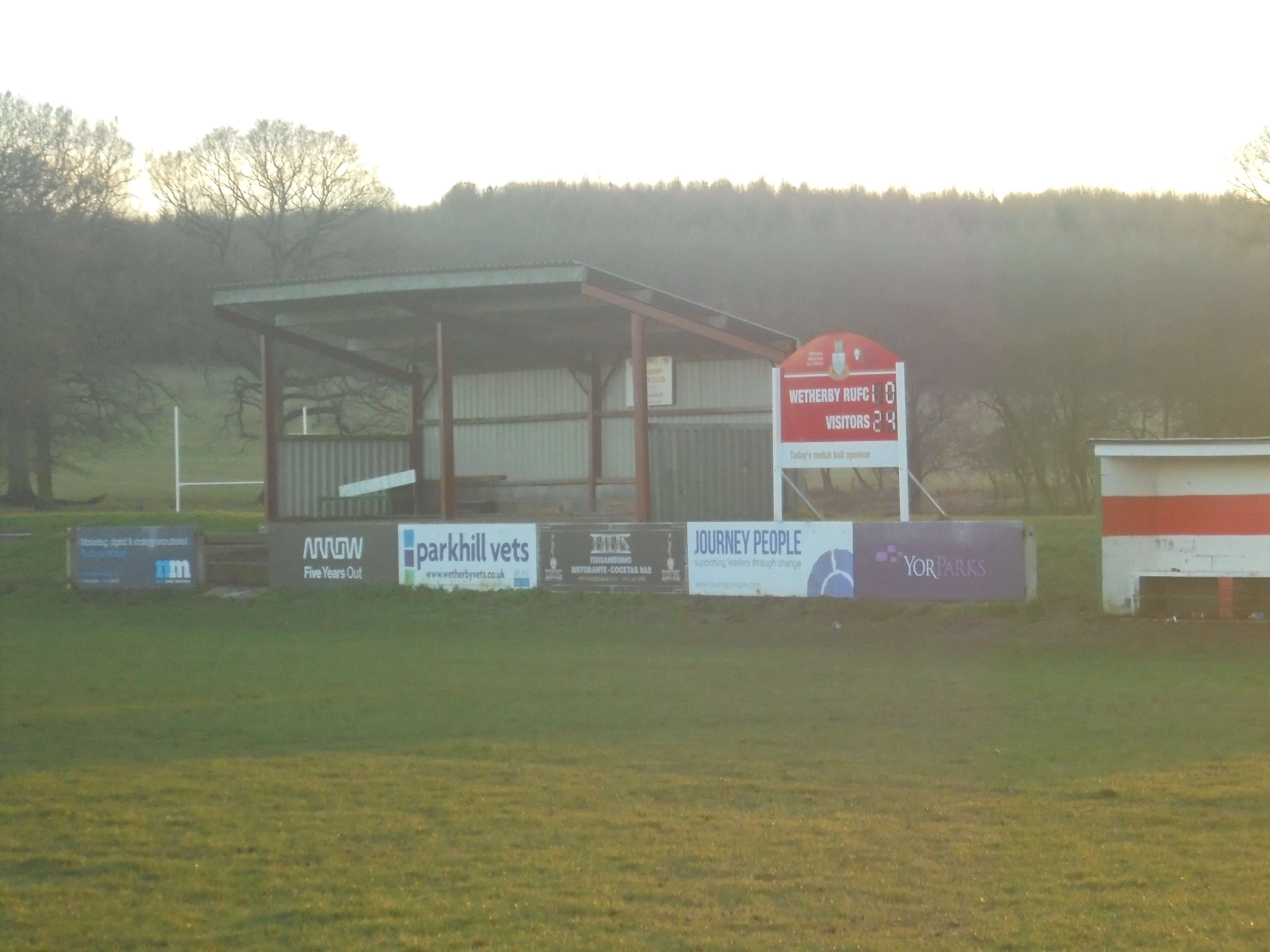 Grandstand, first team rugby pitch, Grange Park, Wetherby, West Yorkshire. Taken on the afternoon of Monday the 24th of December 2018.